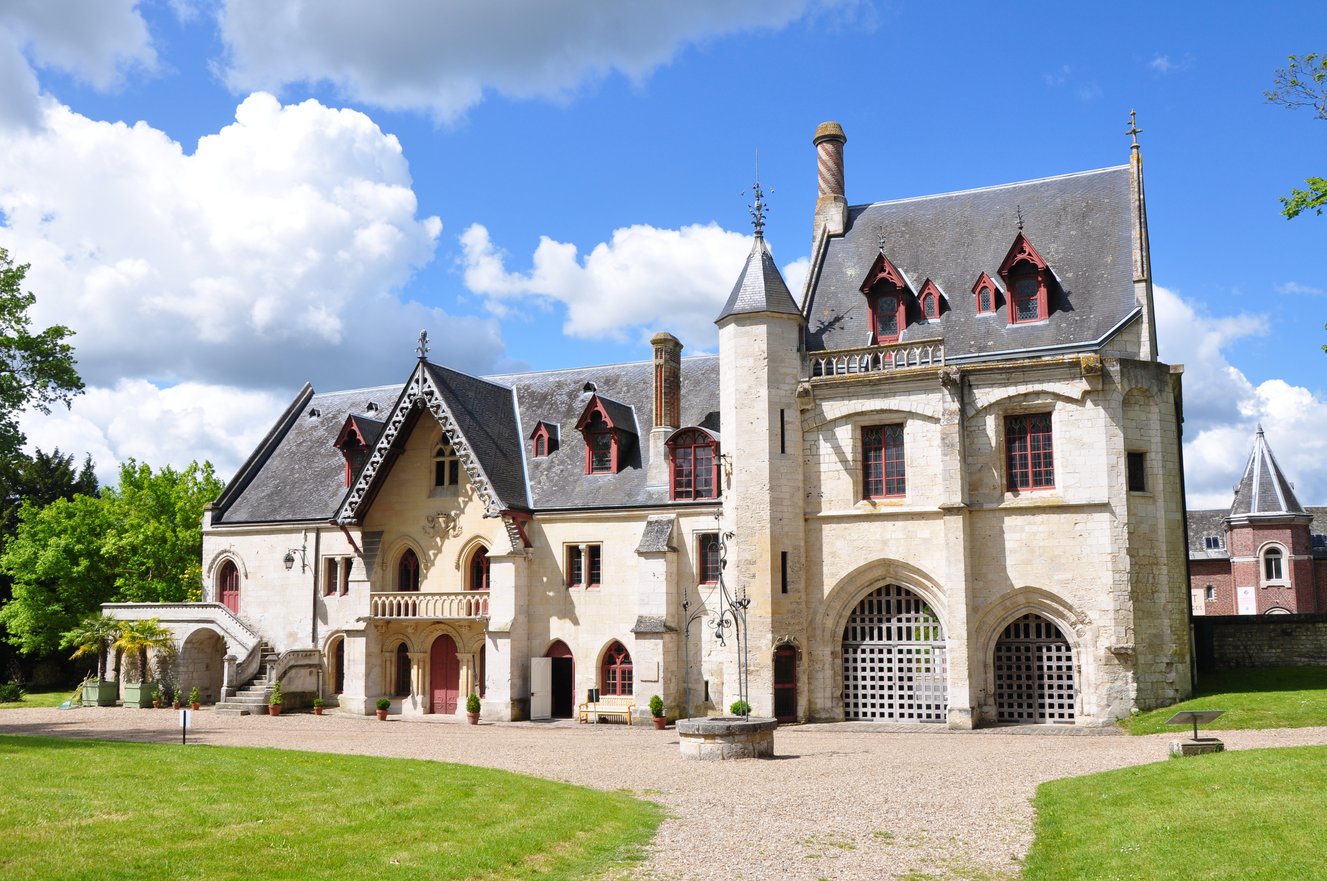 Building in Abbaye de Jumièges (France, Normandy)